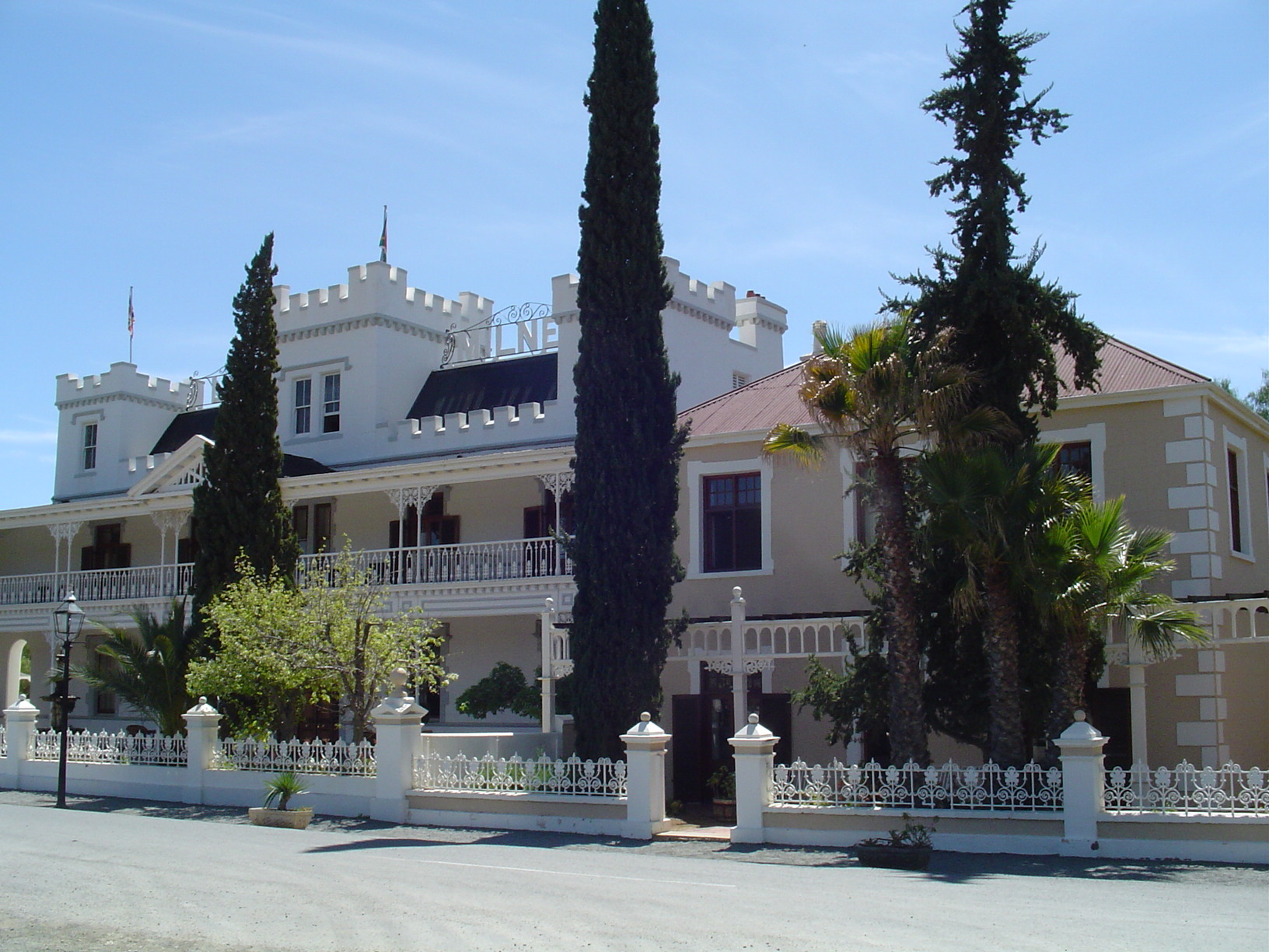 Lord Milner Hotel, Matjiesfontein, South Africa, named after Alfred, Lord Milner. This media shows a South African Protected Site with SAHRA file reference 9/2/058/0001.